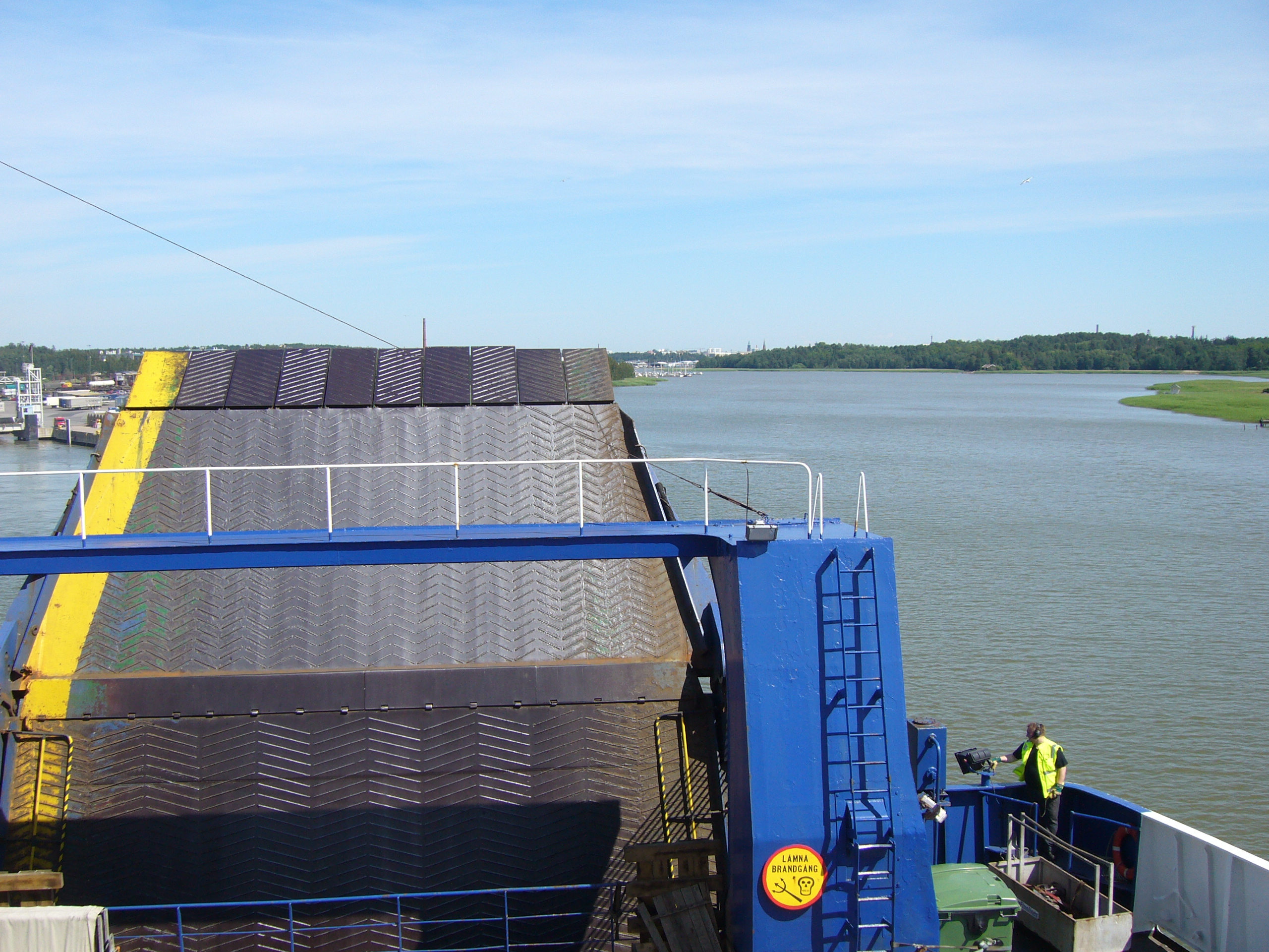 Finnish RoRo cargo ship M/S Global Freighter in Turku, Finland.